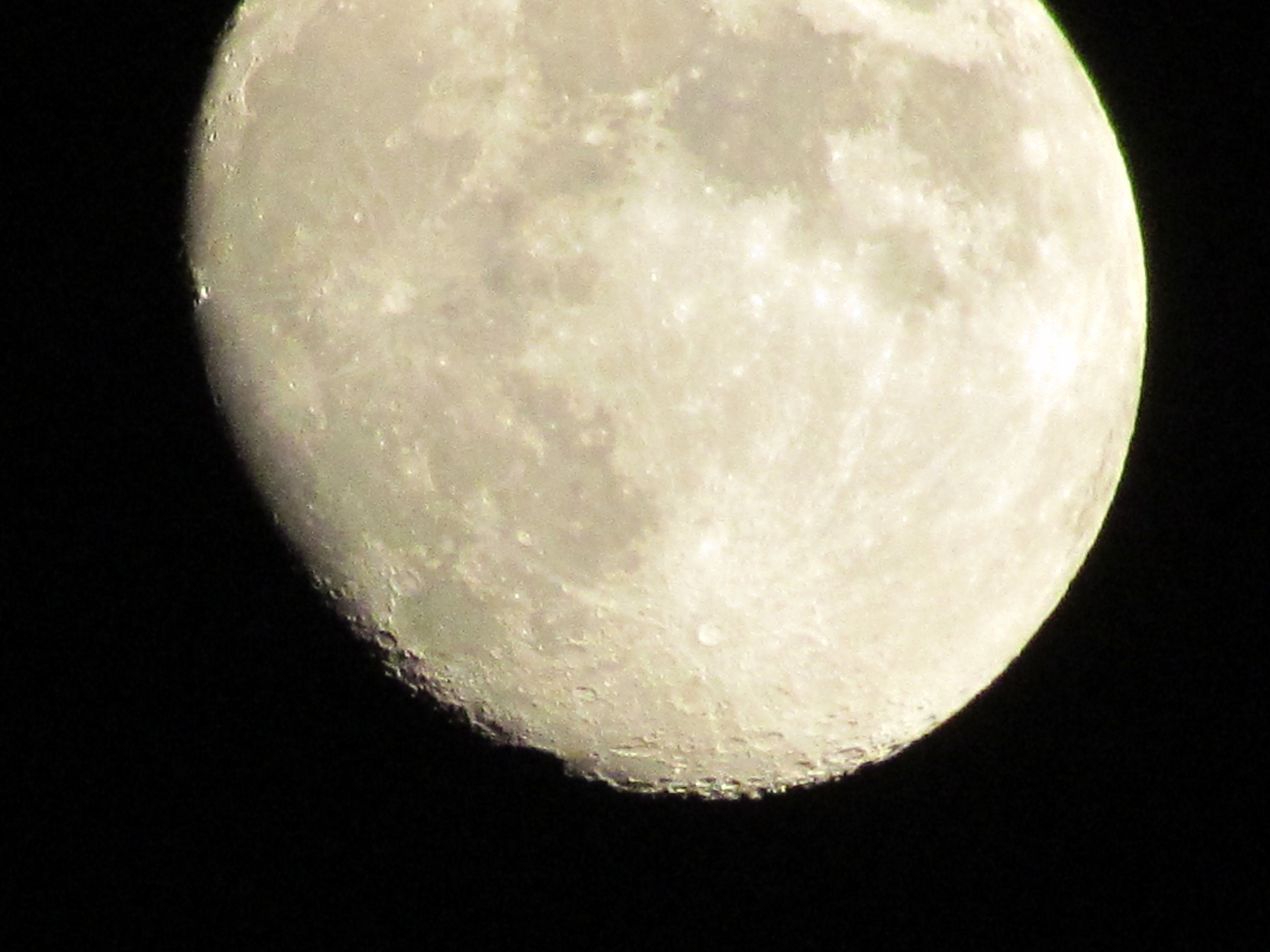 A full moon